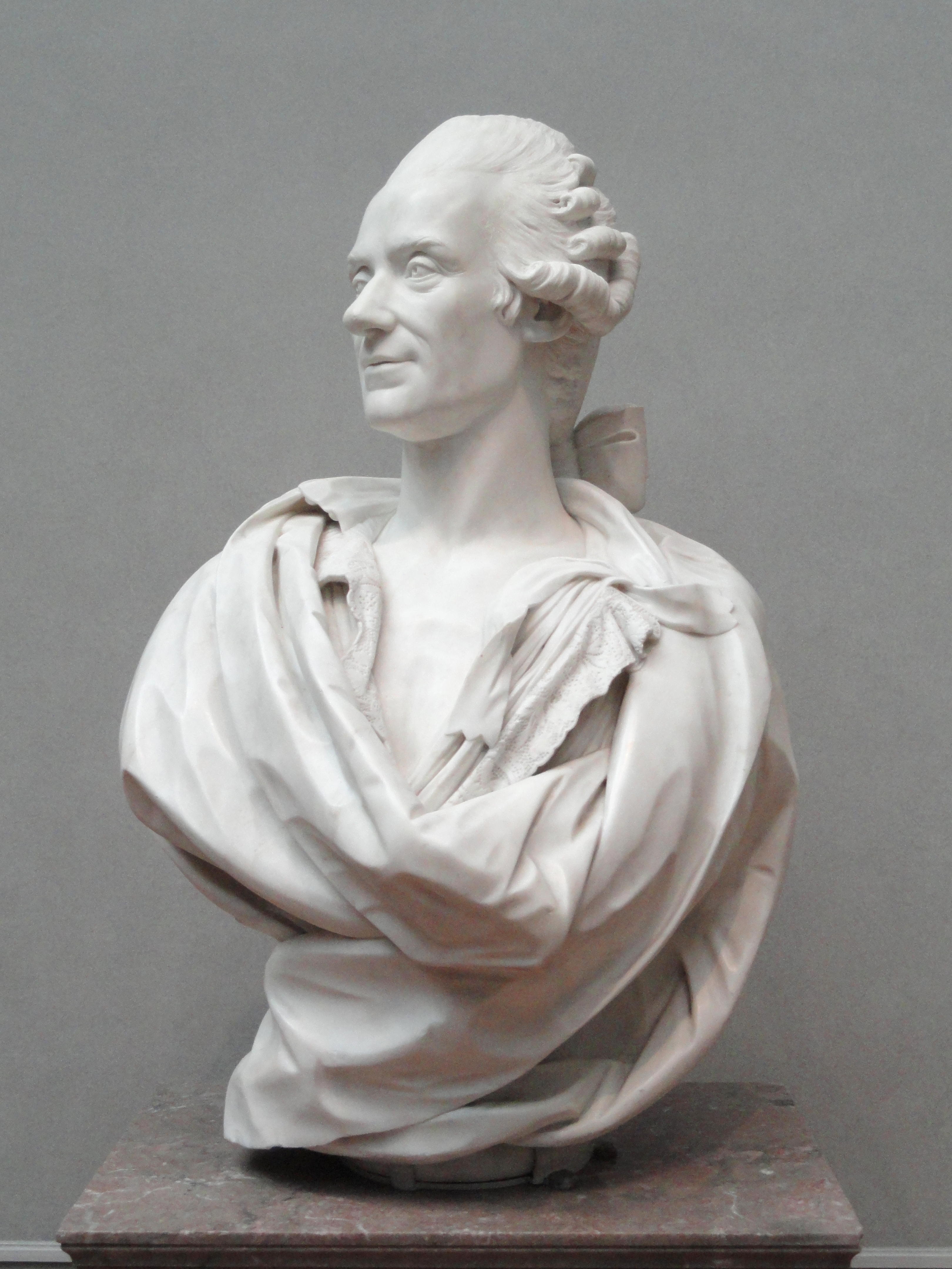 Jules-David Cromot, Baron du Bourg, by Jean-Baptiste LeMoyne, c. 1757, marble - National Gallery of Art, Washington, DC, USA. This work is in the public domain because the artist died more than 70 years ago.